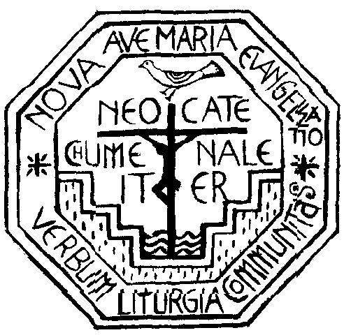 The official logo of the Neocatechumenal Way in Latin